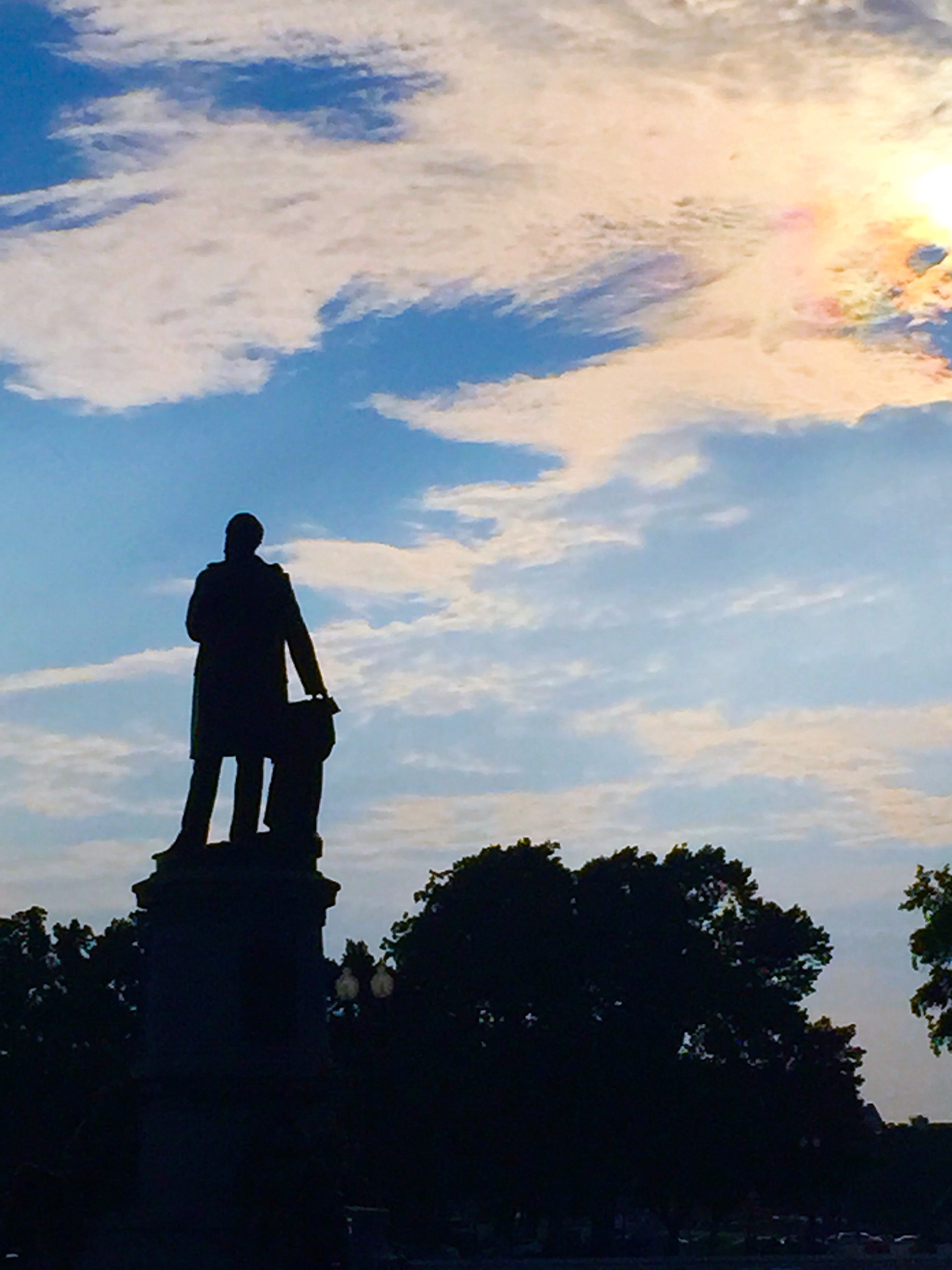 The monument to President James A. Garfield that only served for four months of his term due to his assignation. It has stood on the grounds of the United States Capitol since 1975.